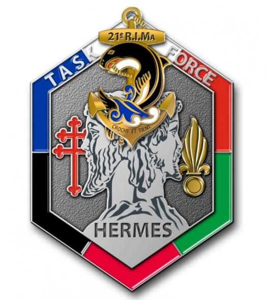 badge of the 21st Marine Infantry Regiment. Task Force Hermès (Afghanistan)